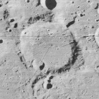 Galvani crater, on the moon.